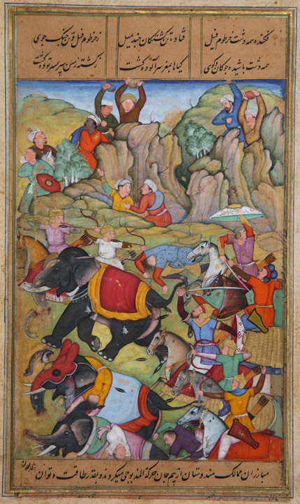 The Defeat by Timur of the Sultan of Delhi, Nasir Al-Din Mahmum Tughluq, in the winter of 1397-1398; The Minneapolis Institute of Arts, 2014.101